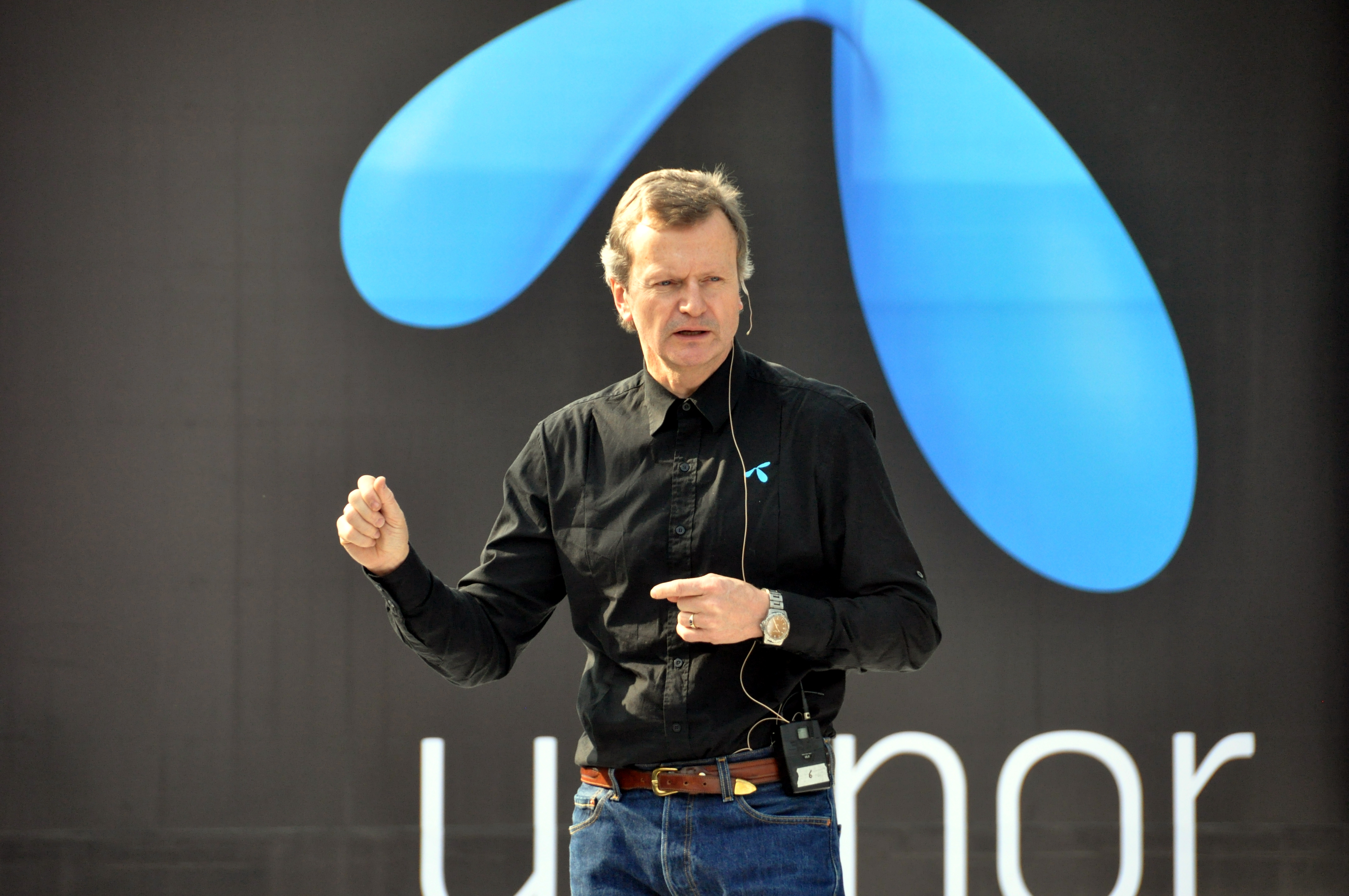 Jon Fredrik Baksaas, CEO of Telenor, at Unitech launch in 2009.